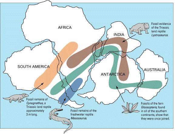 Continental drift fossil evidence. As noted by Snider-Pellegrini and Alfred Wegener, the locations of certain fossil plants and animals on present-day, widely separated continents would form definite patterns (shown by the bands of colors), if the continents are rejoined.